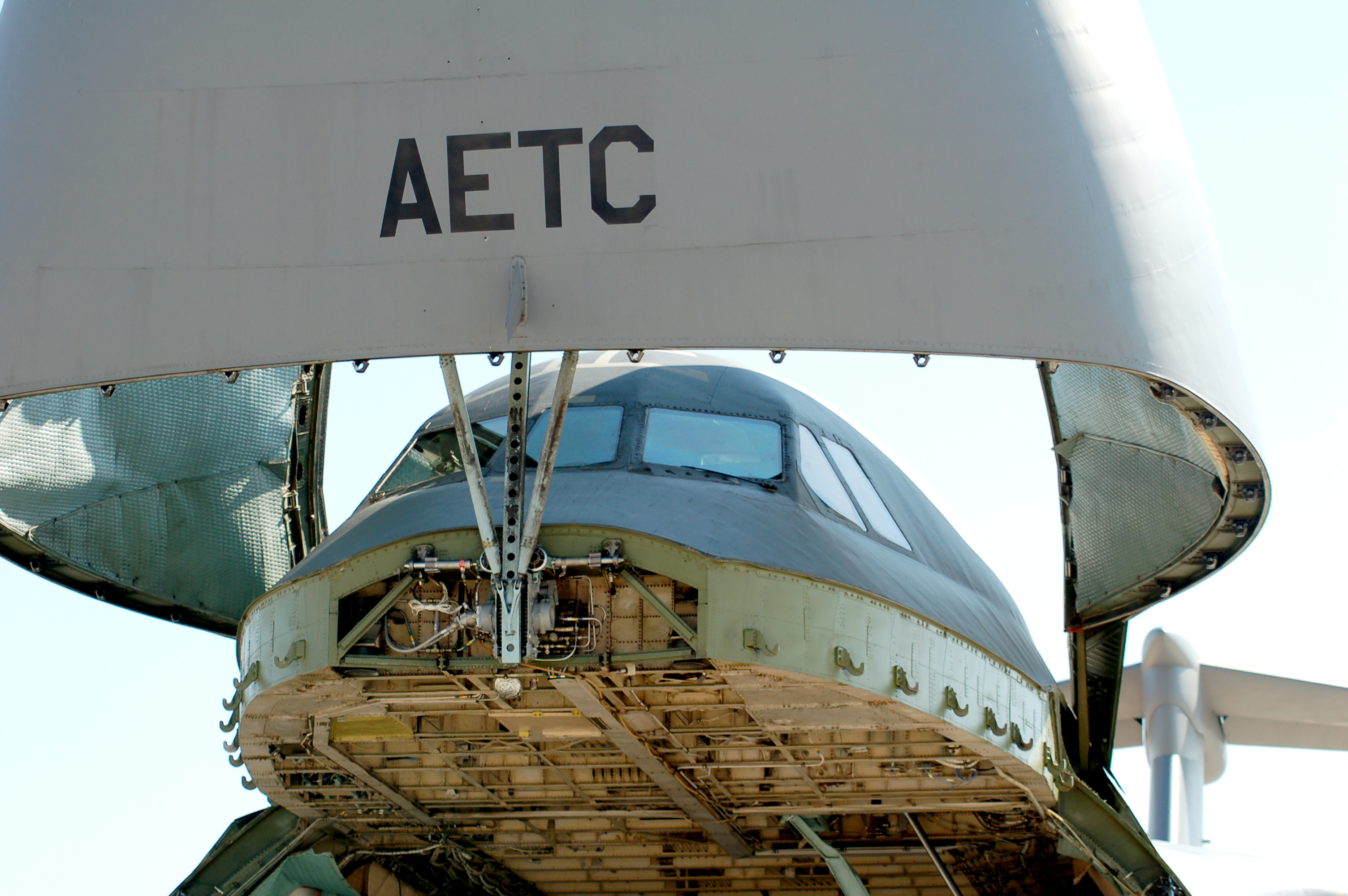 A detail of the nose of a United States Air Force C5 Galaxy cargo plane. This photo was taken at Kirtland Air Force Base, Albuquerque, New Mexico.